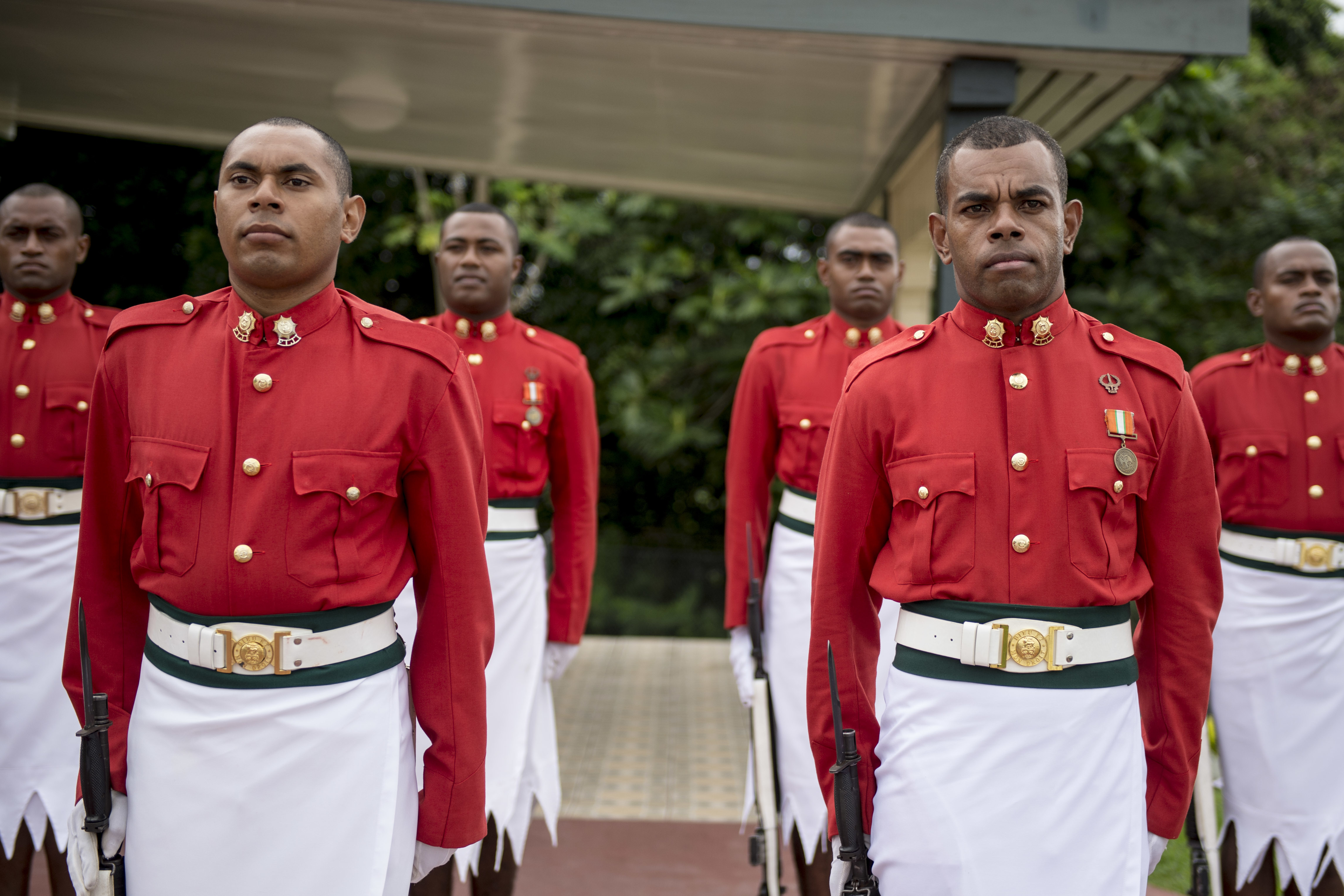 Members from the Republic of Fiji Military Forces Quarter Guard stand at attention during a ceremony at the RFMF Strategic Headquarters during Pacific Partnership 2015. The hospital ship USNS Mercy (T-AH 19) is in Suva, Fiji, for its first mission port of PP15. Pacific Partnership is in its 10th iteration and is the largest annual multilateral humanitarian assistance and disaster relief preparedness mission conducted in the Indo-Asia-Pacific region. While training for crisis conditions, Pacific Partnership missions to date have provided real world medical care to approximately 270,000 patients and veterinary services to more than 38,000 animals. Additionally, the mission has provided official infrastructure development to host nations through more than 180 engineering projects. (U.S. Air Force photo by Senior Airman Peter Reft/RELEASED)